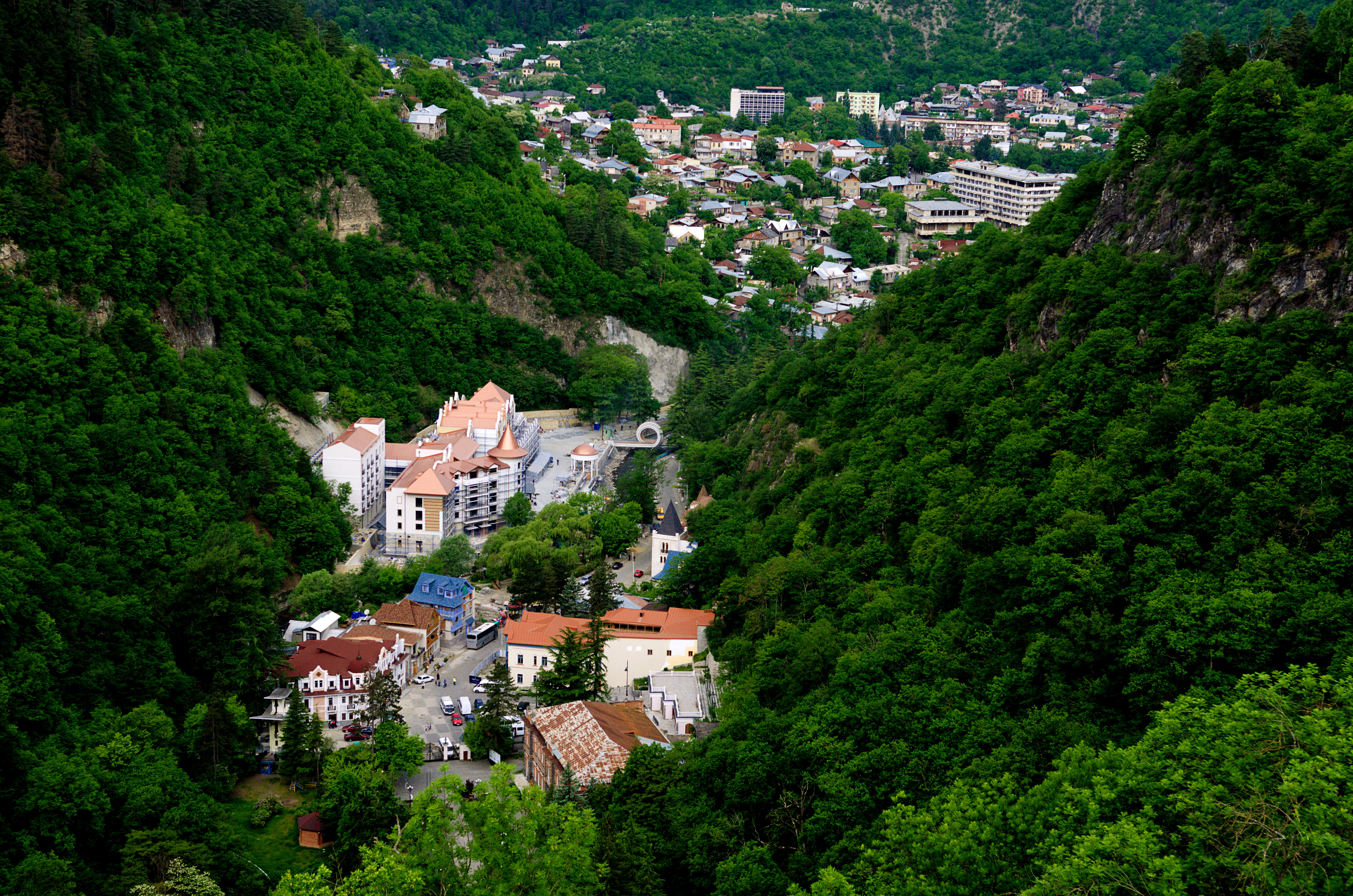 Borjomi, Caucasus, Georgia.